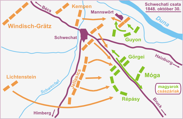 Battle map of the Battle of Schwechat